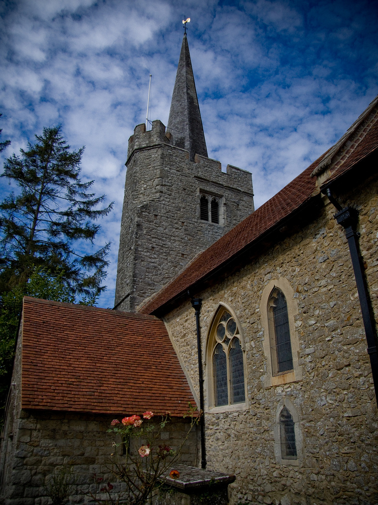 West tower and south porch of St Margaret's parish church, East Barming, Kent, seen from the southeast